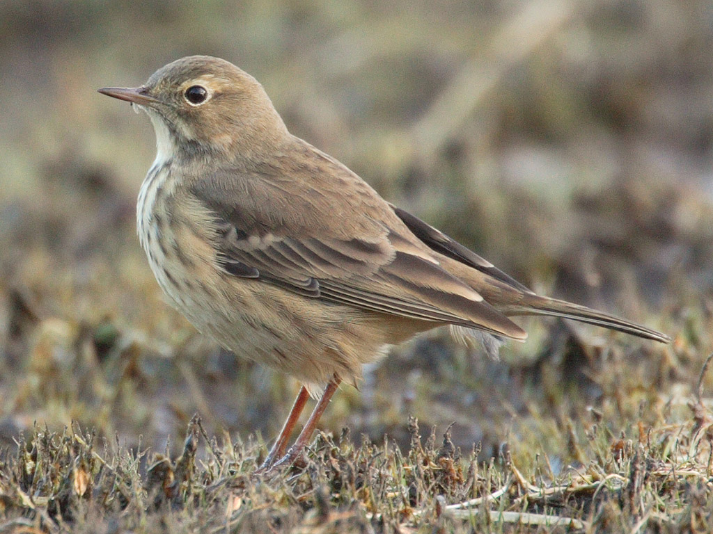 Description: American Pipit (Anthus-rubescens), Rock Lake, Algonquin Provincial Park, Canada, 2005 September Photograph: Mdf first upload in en wikipedie on 23:57, 28 September 2005 by Mdf source engl. WP [1] Licence